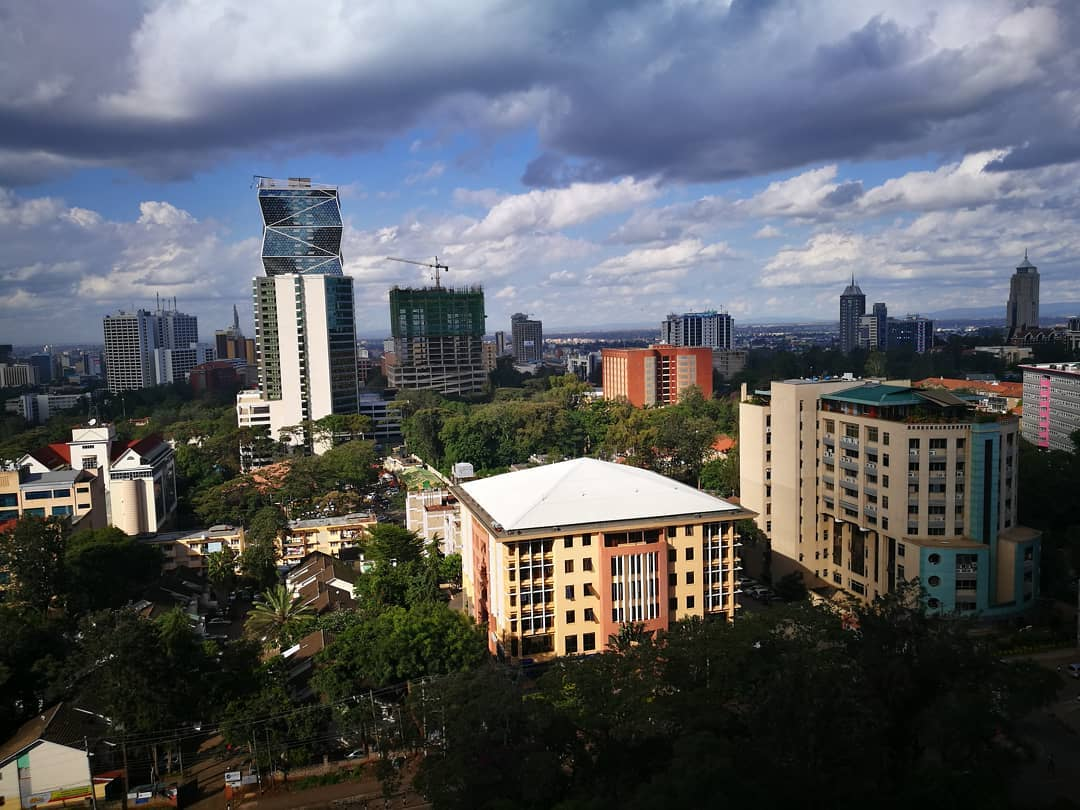 Section of Upper Hill with the newly completed Prism Tower and Under Construction Upper Hill Chambers in April 2018.